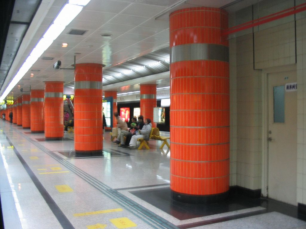 新閘路站-1號線月台 Line 1 Platform of Xinzha Road Station